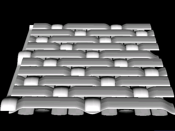 Structure of twill fabric